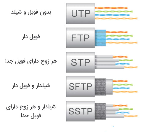 انواع کابل شبکه